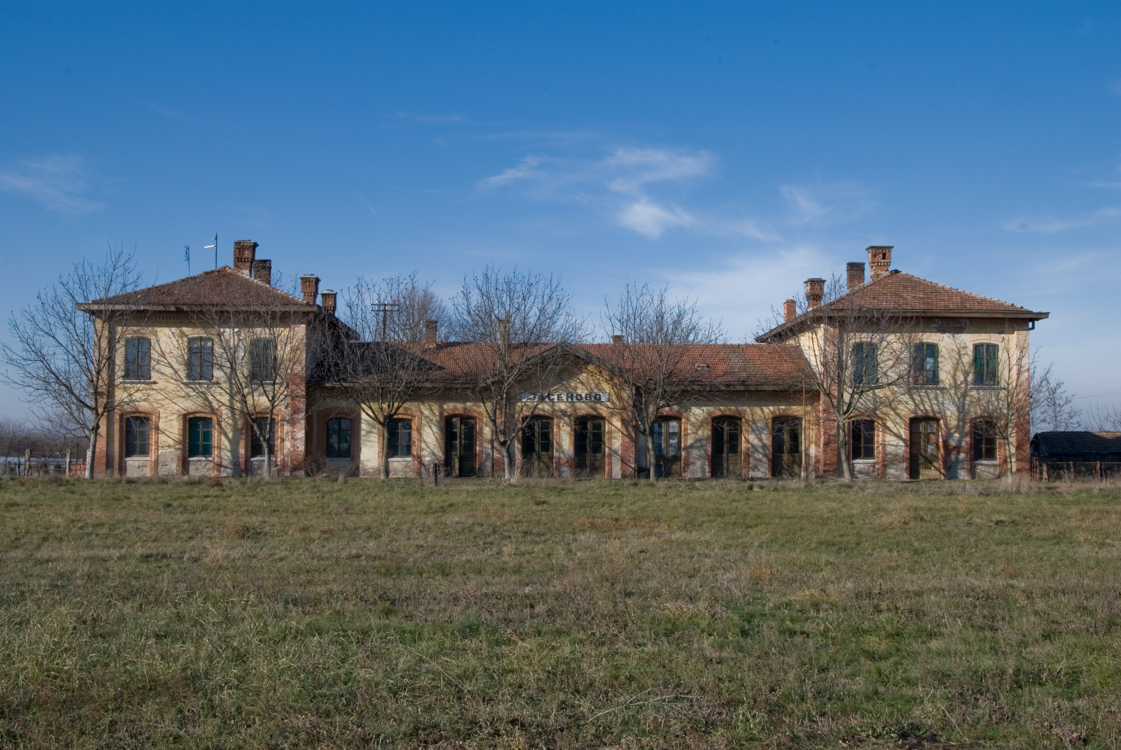 Railway complex Jasenovo on the railway line Vršac - Bela Crkva